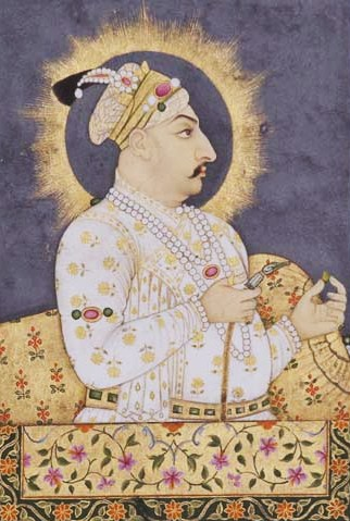 Muhammad Shah of India.